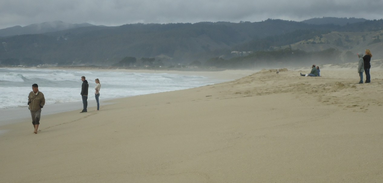 Looking northwest from public park at beachgoers and Pacific Ocean at Half Moon Bay, San Mateo County, California